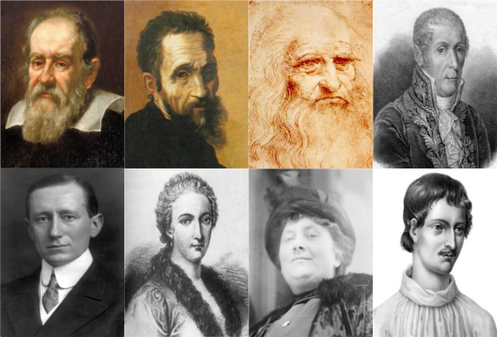 Italians (from top, left to right): Galileo Galilei, Michelangelo Buonarroti, Leonardo da Vinci, Alessandro Volta, Guglielmo Marconi, Maria Gaetana Agnesi, Maria Montessori, Giordano Bruno